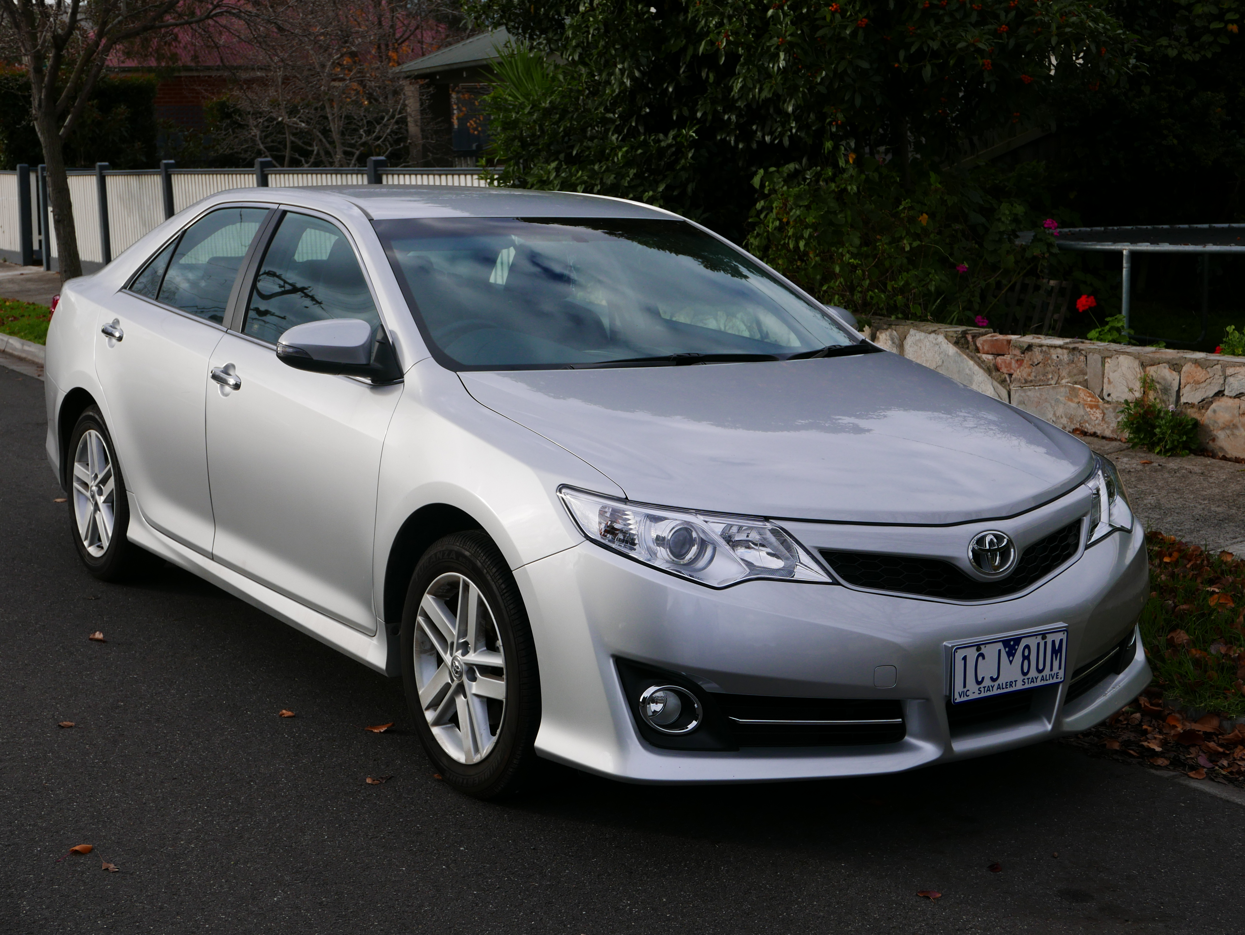 2014 Toyota Camry (ASV50R) Atara S sedan. Photographed in Northcote, Victoria, Australia. Vehicle registration enquiry resultsJurisdictionVictoriaRegistration1CJ8UMChassis code6T1BF3FK80X053005Engine code2ARU159584Compliance date2014-06Year of manufacture2014